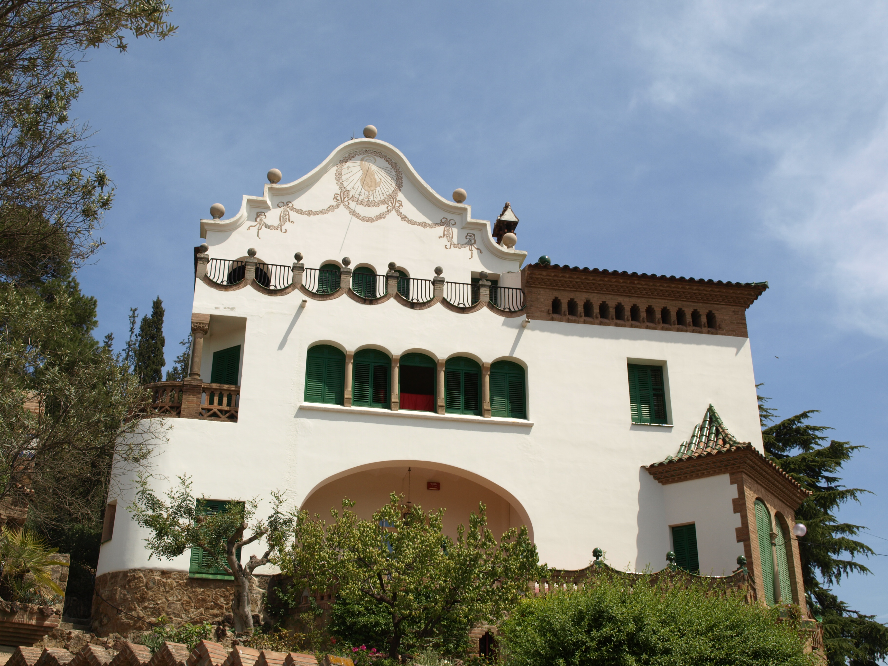 Casa Martí Trias i Domènech, Parc Guell